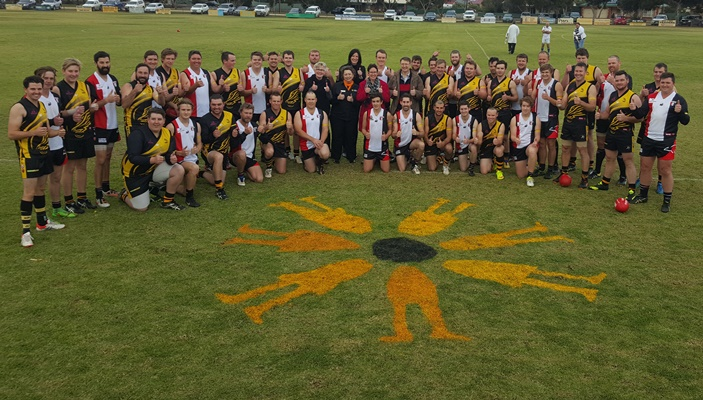 Melanoma Awareness Day event conducted by the Foundation in Lameroo, SA, to conduct free skin checks during the local football season.